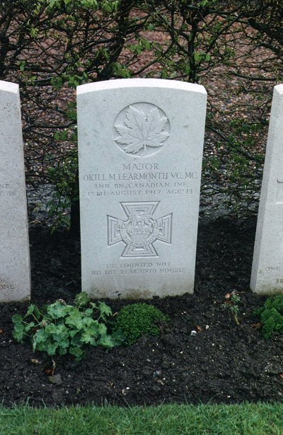 Grave photo of Victoria Cross recipient Okill Massey Learmonth.